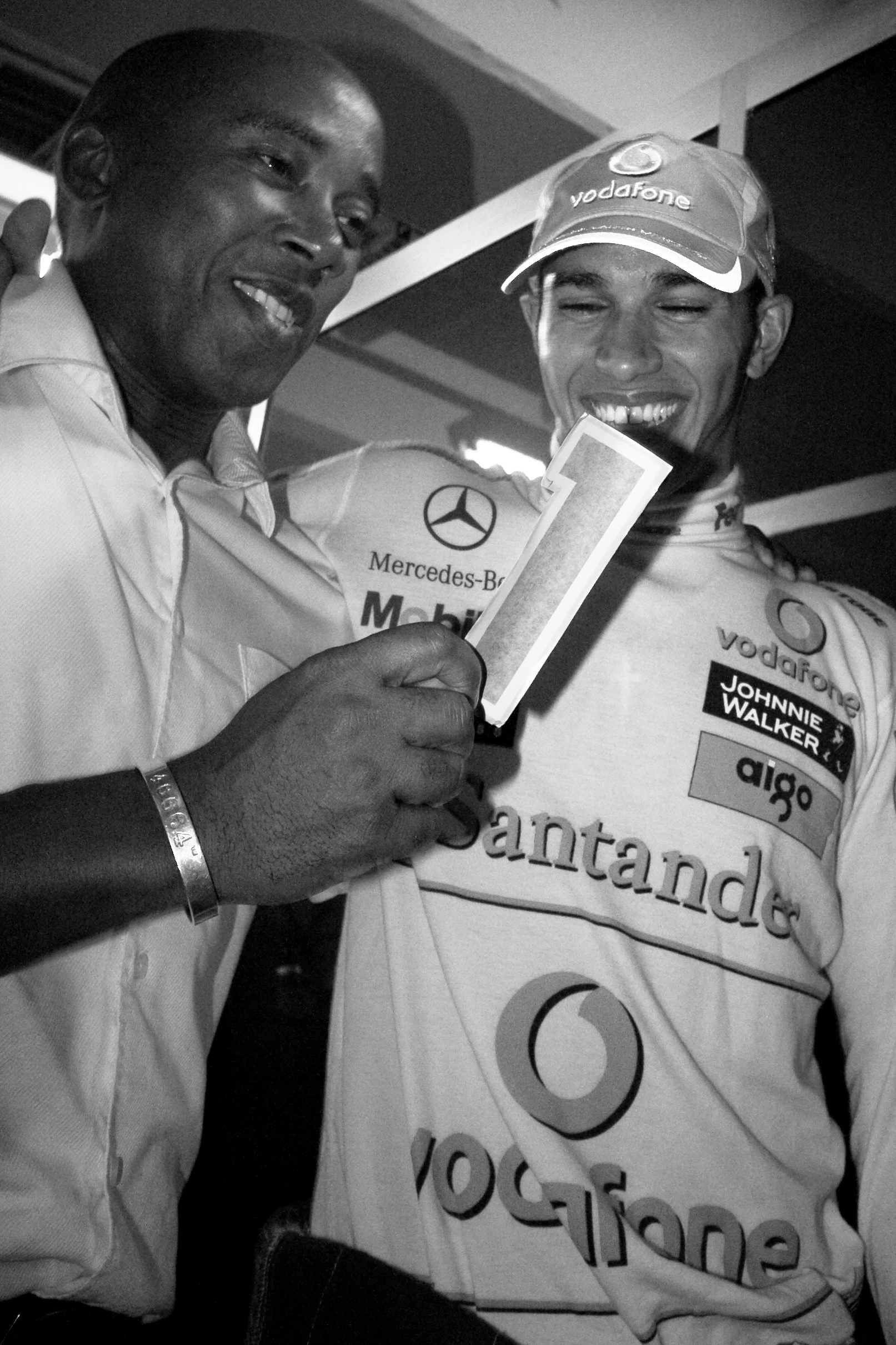 Lewis Hamilton / F1 / World Champion 2008 Brazilian GP